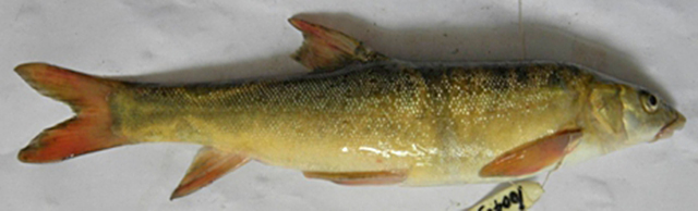 China, Lhasa, Tibet